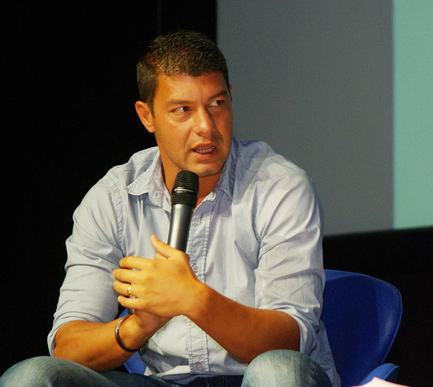 Argentine former player Sebastián Battaglia during a conference given at Universidad Metropolitana para la Educación y el Trabajo of Buenos Aires.